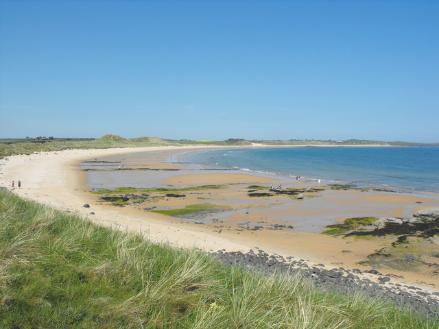 Embleton Bay We followed the path from Craster to Beadnell and this was just one of the wonderful views we saw that day.